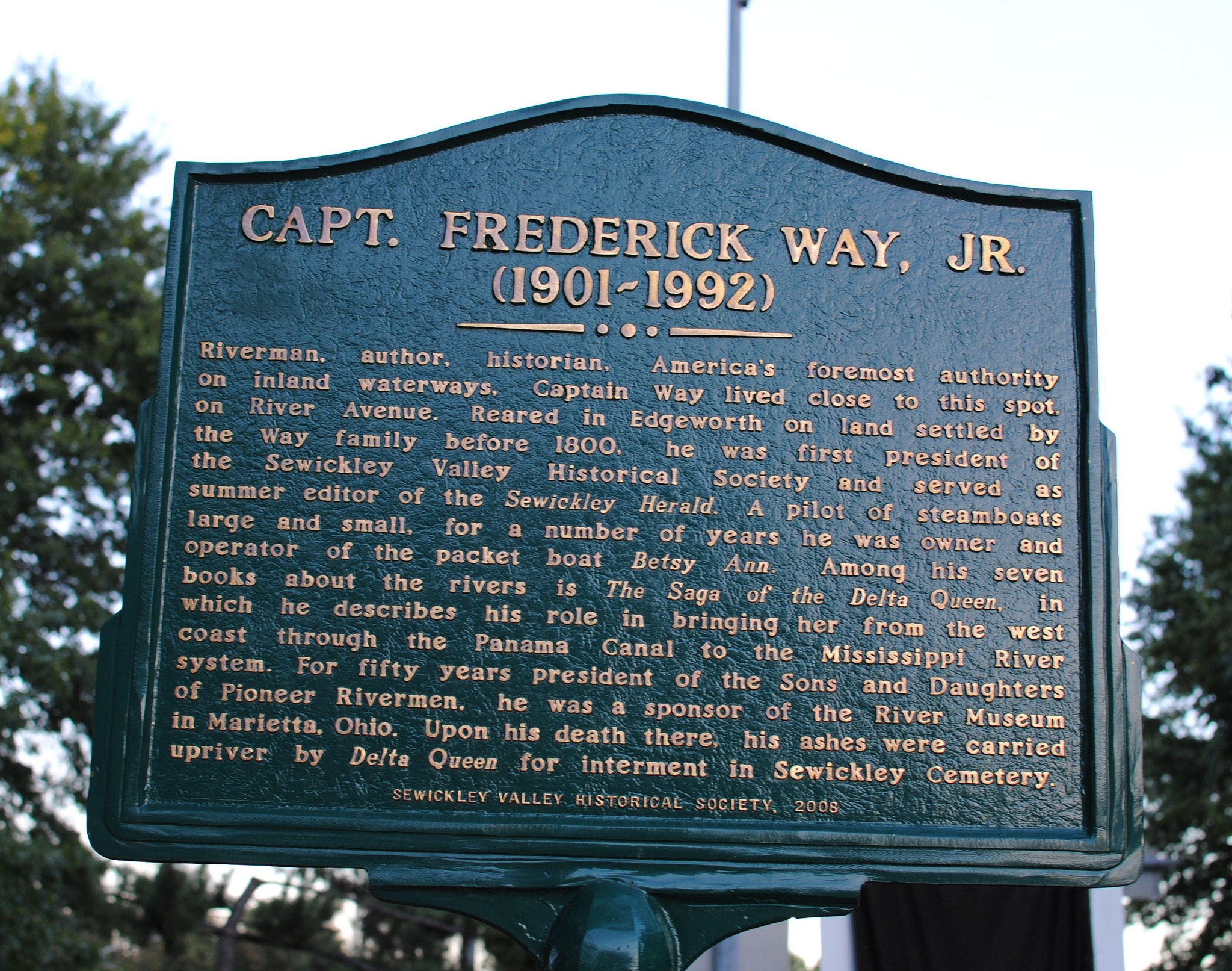 Scouting Trip